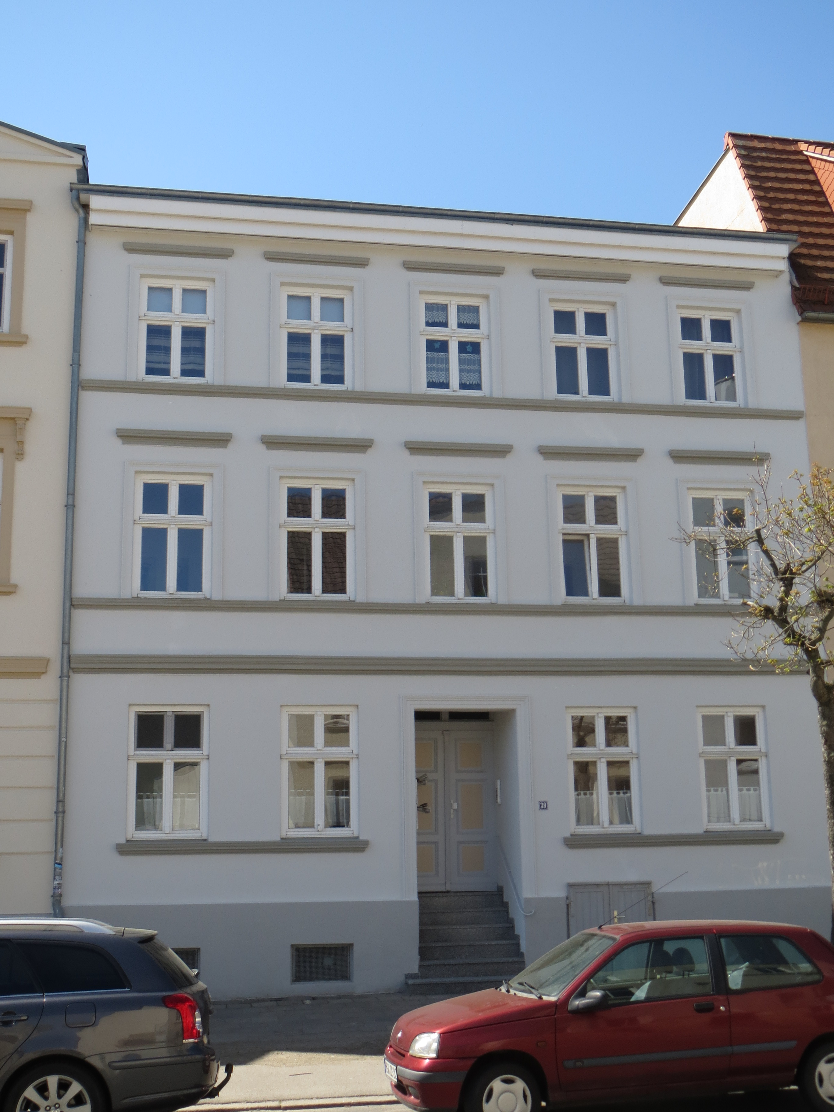 Gützkower Straße 39 in Greifswald